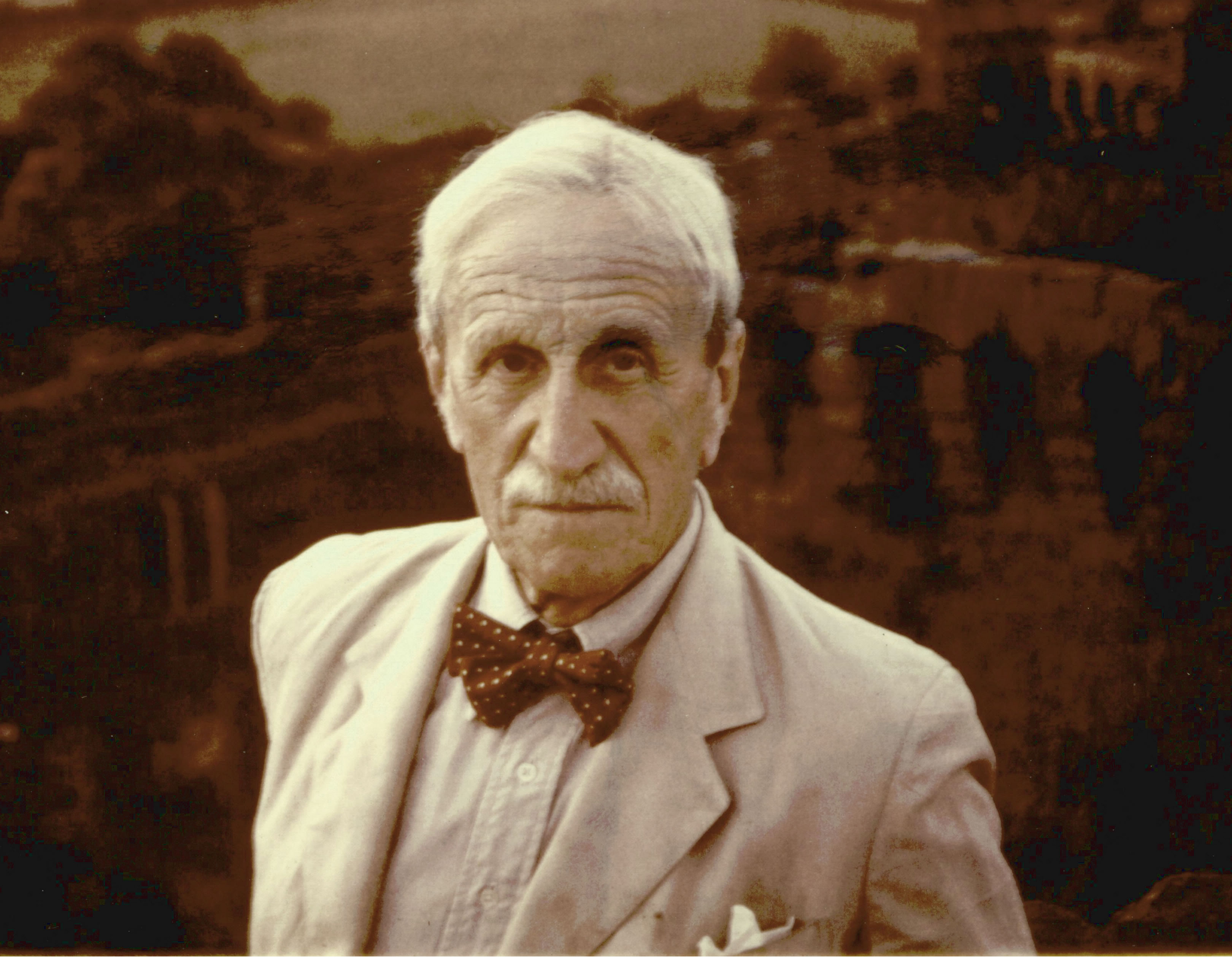 This photo was taken by a living family member who has released it into the public domain.